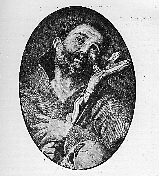 Francis of Assisi